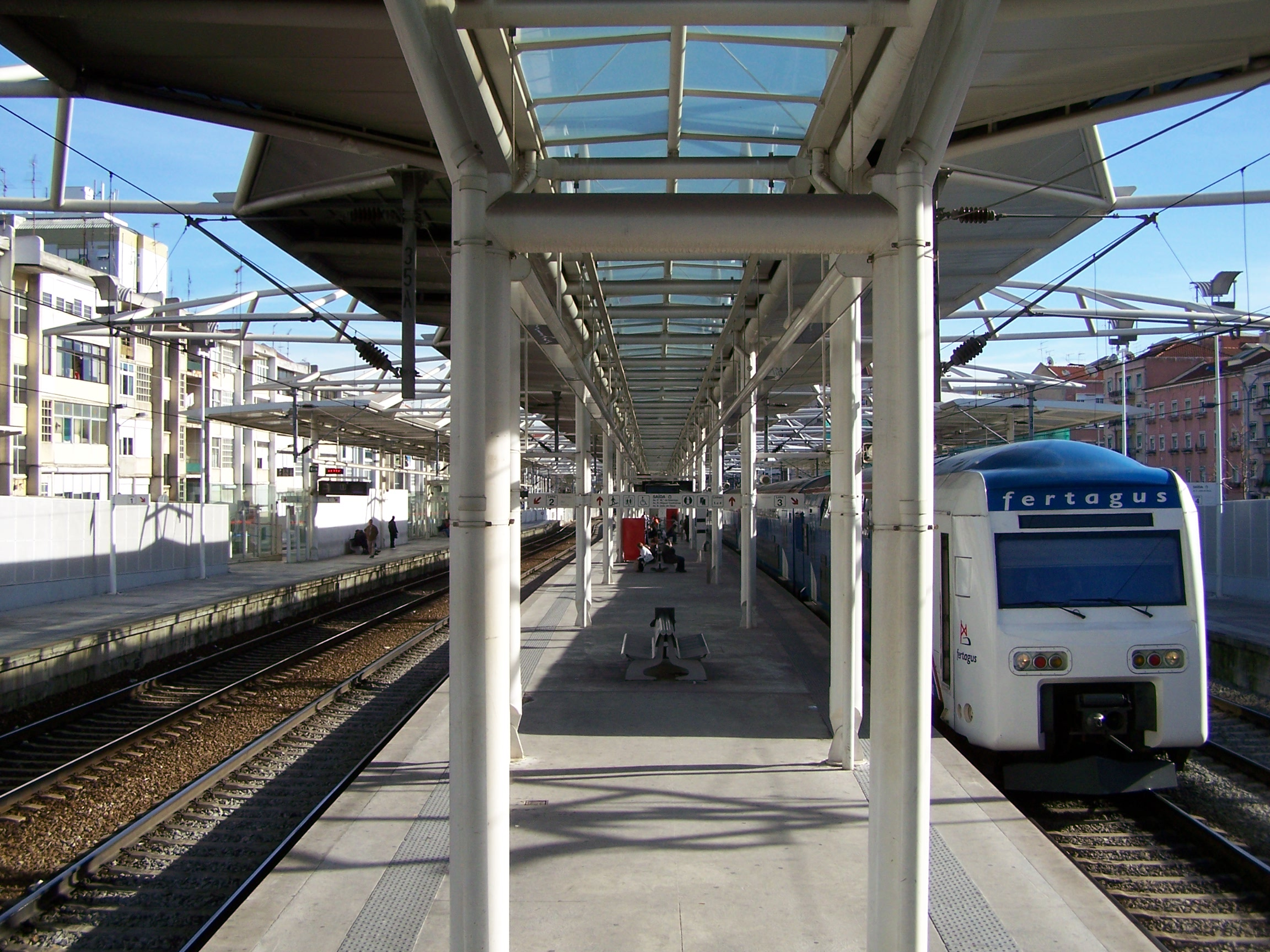 Lisbon's train station Roma-Areeiro, Lisbon, Portugal